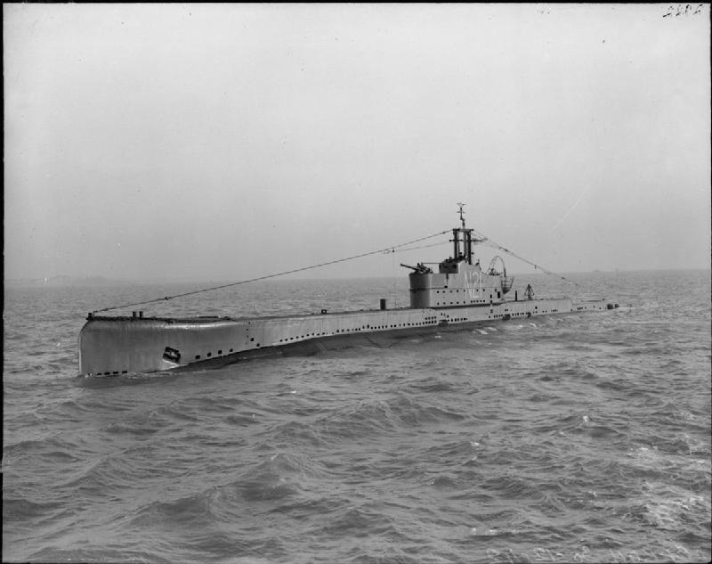 HMSM Oberon Underway off Spithead.